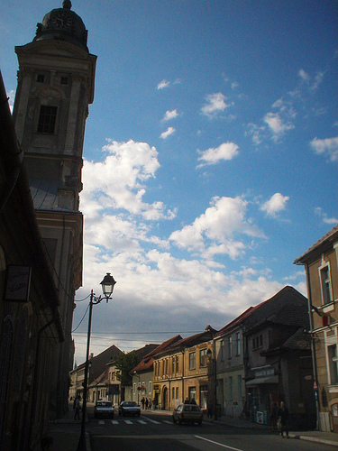 Photo of old Baia Mare